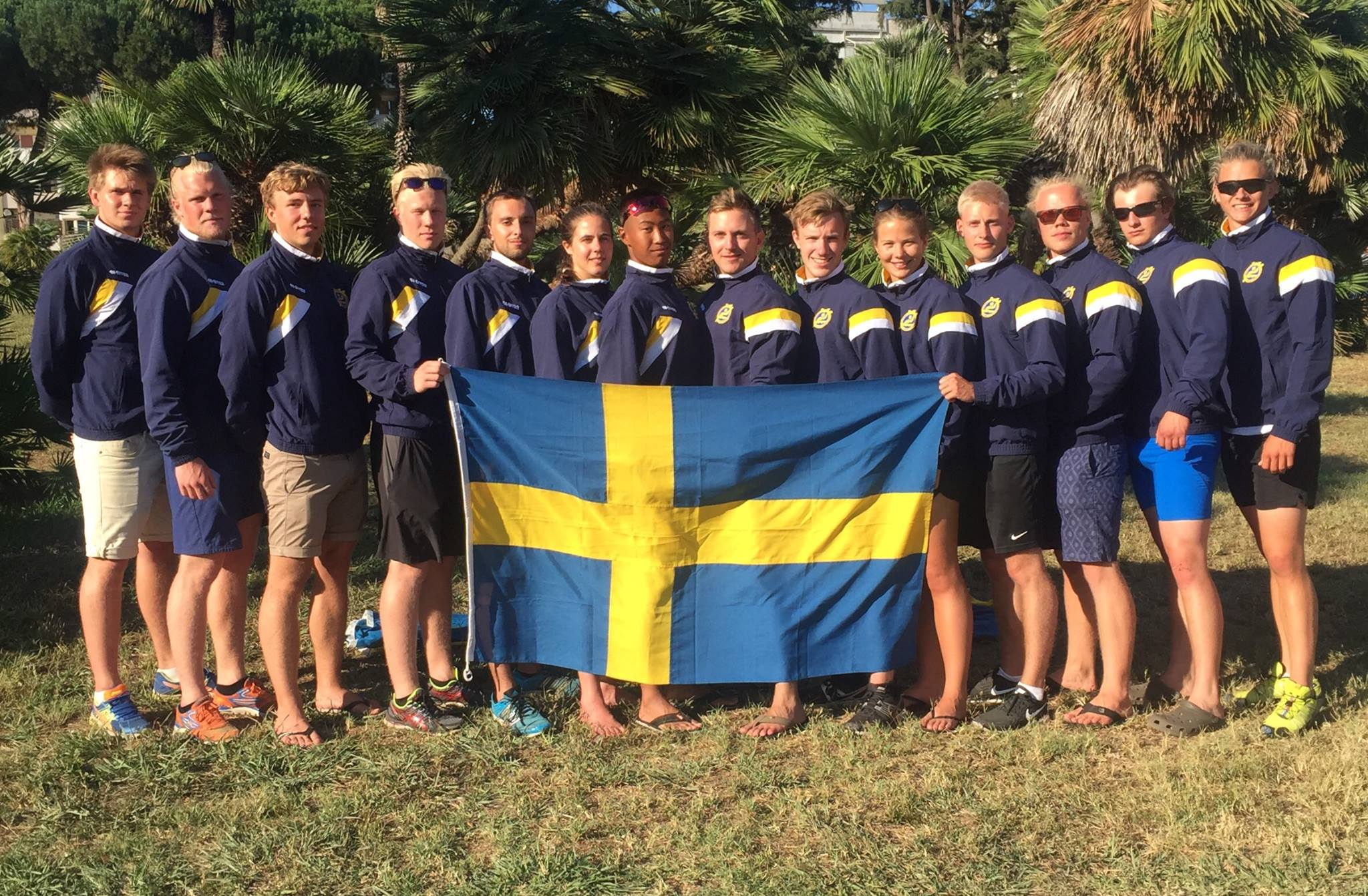 (EDBF European Dragon Boat Racing Championships 2016 in Rome. U24 Men Small Boat 1500 meter rooster.)